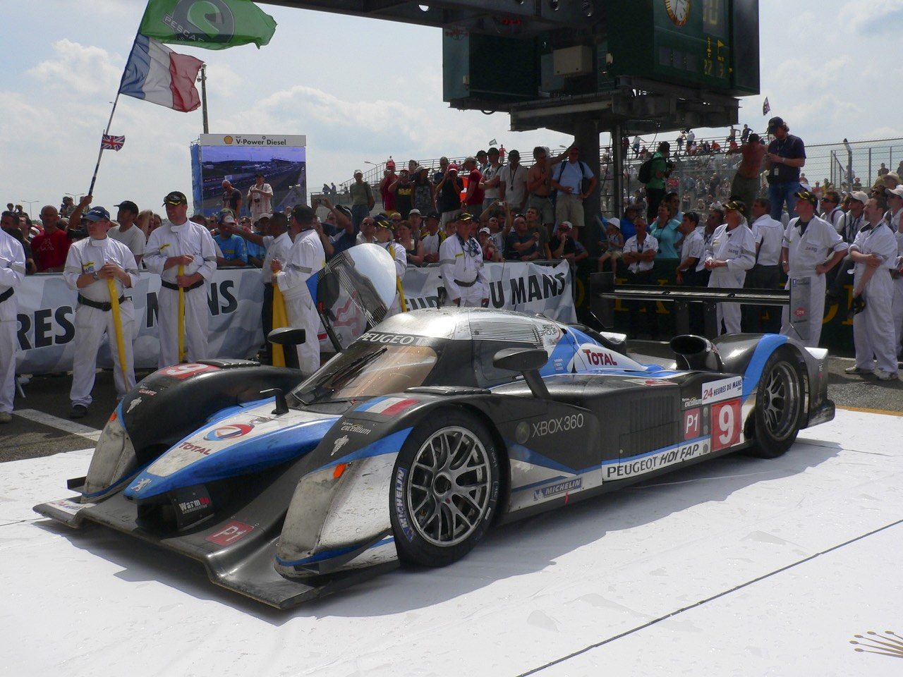 Peugeot 908 HDi FAP, car number 9, winner 24 Hours Le Mans 2009, beneath the podium just after the race.